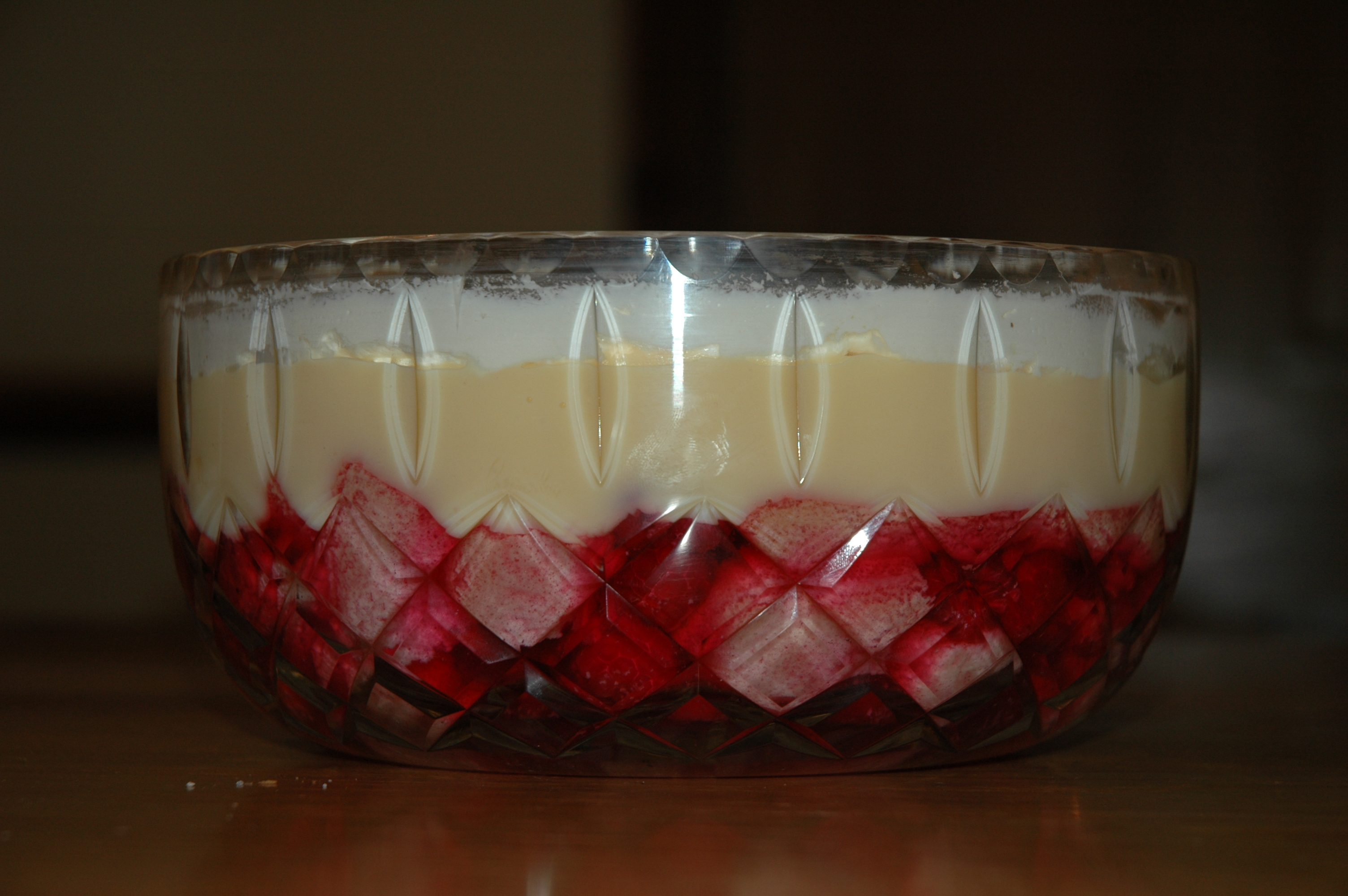 Trifle-(cream-layer)-profile